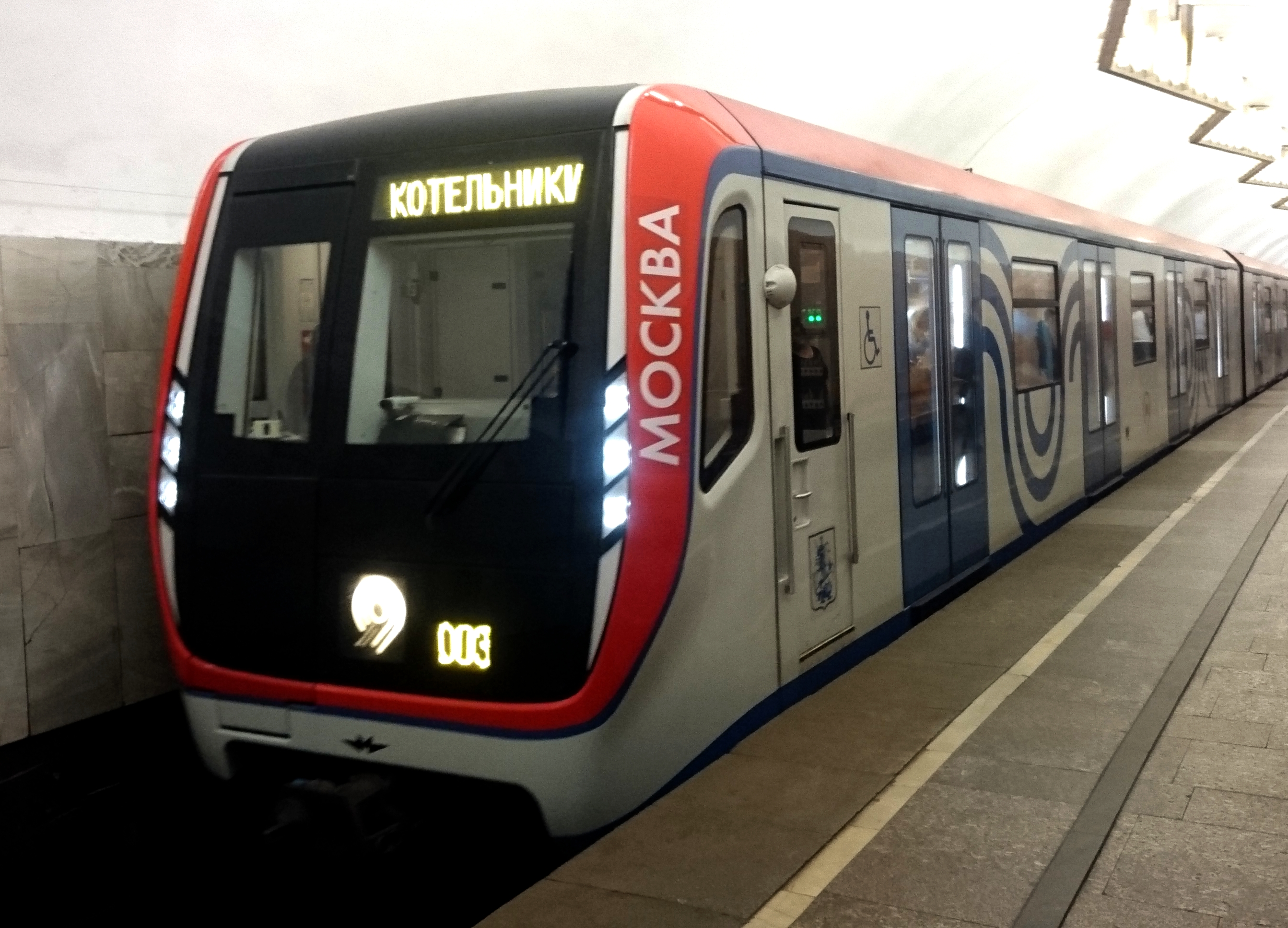 81-765/766/767 train ("Moscow").